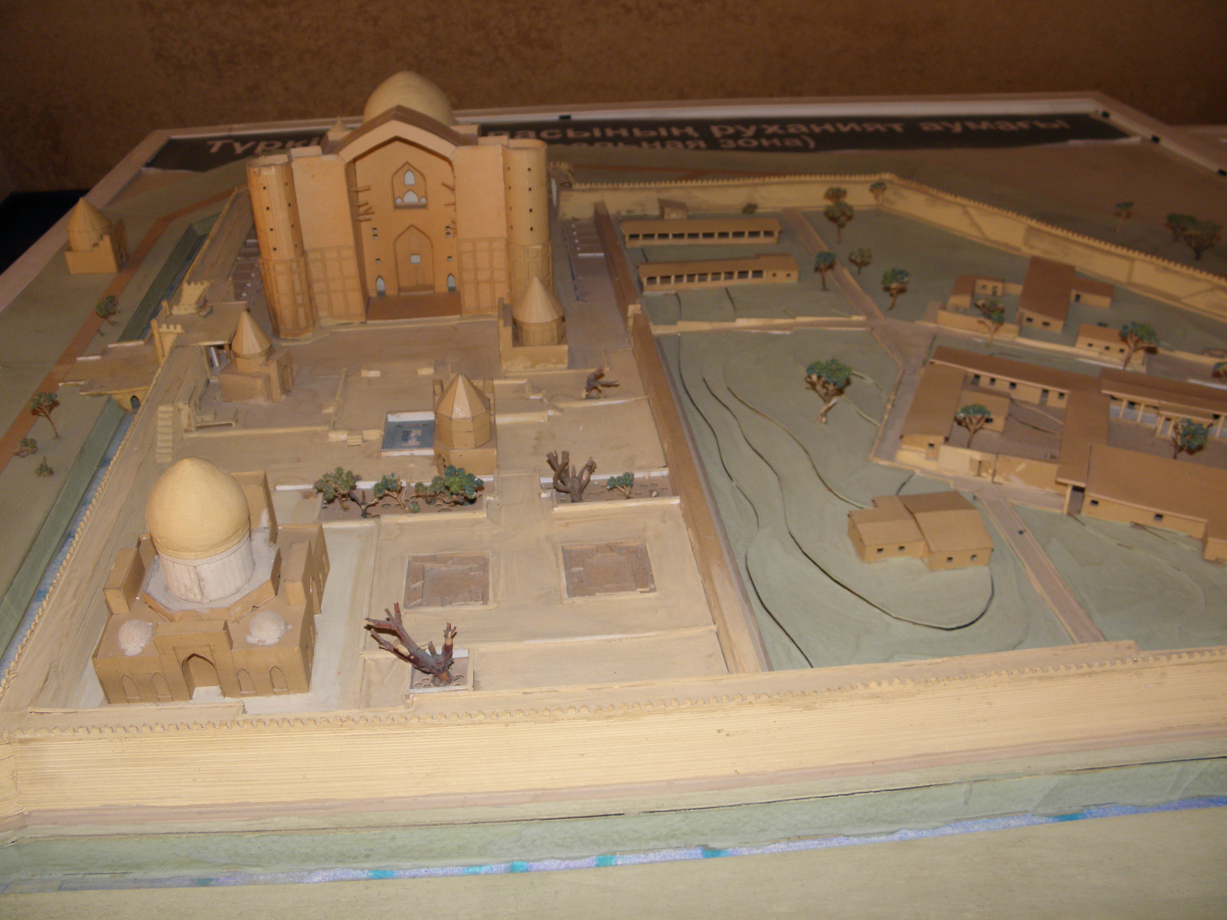 Көне Түркістан